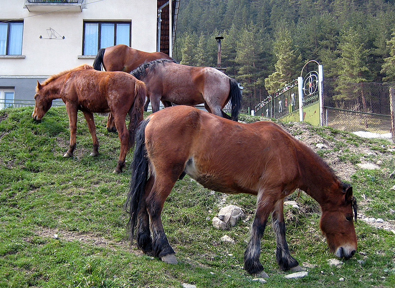 Bulgarian Mountain Horses from Beli Iskar